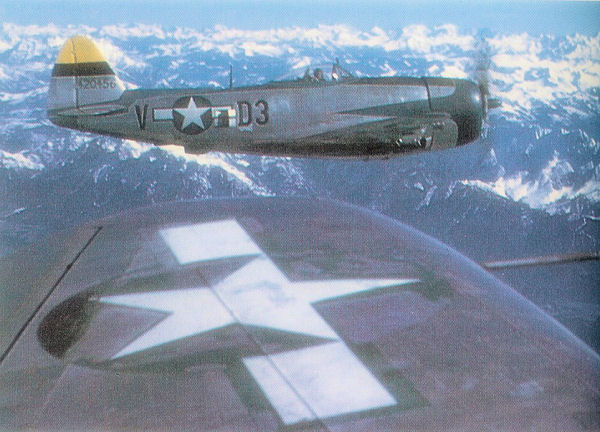 Republic P-47D-30-RE Thunderbolt Serial 44-20456 of the 397th Fighter Squadron, 368th Fighter Group, based at RAF Chilbolton, England, on an escort mission over the German Alps.